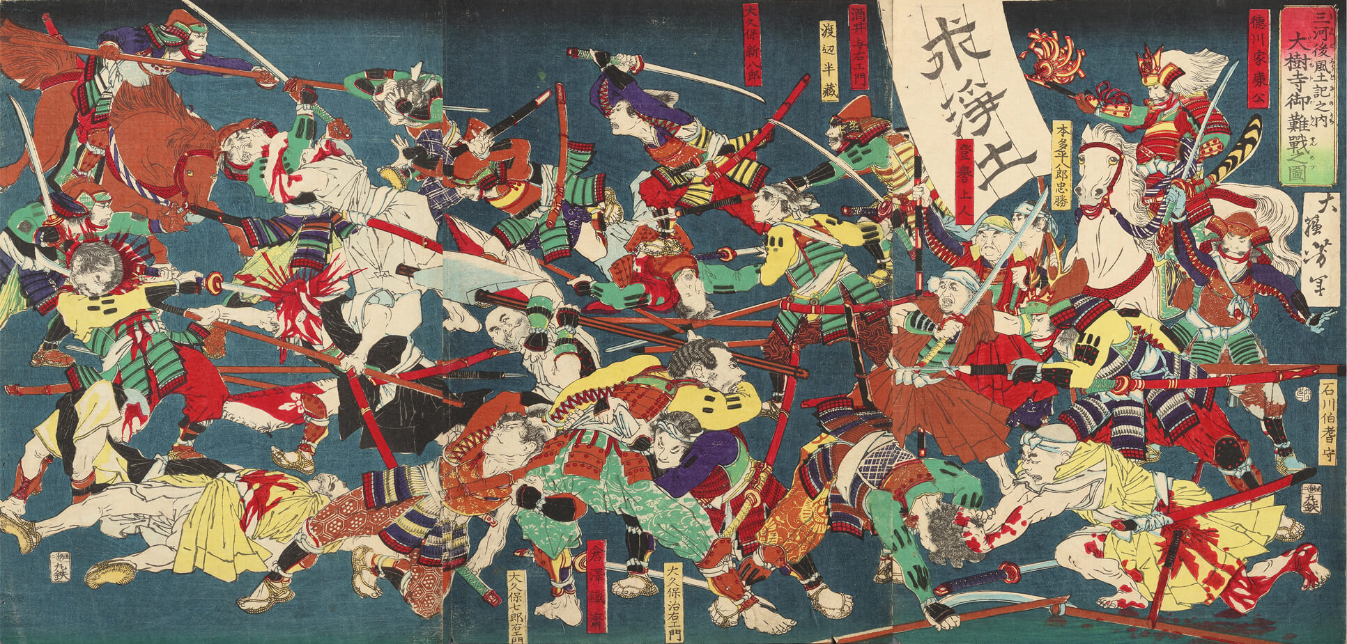 Tokugawa Ieyasu with help from the Jodo monks of the Daijuji temple in Okizaki, defeats the Ikkō-ikki at the battle of Azukizaka, 1564